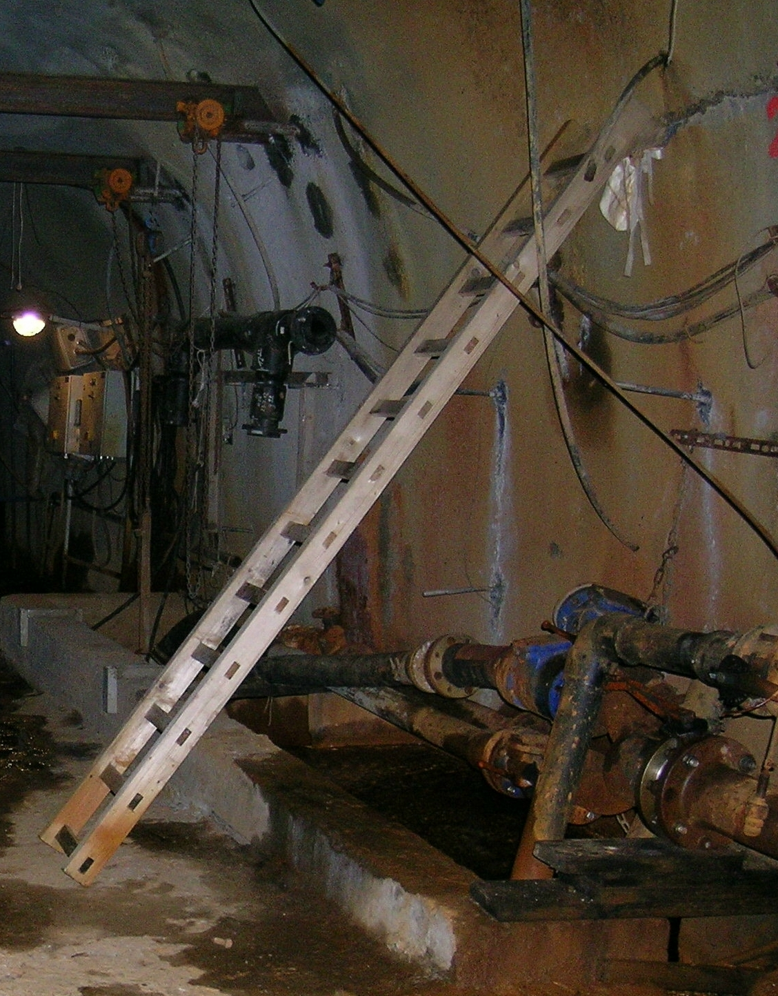 Typical wooden mine ladder.